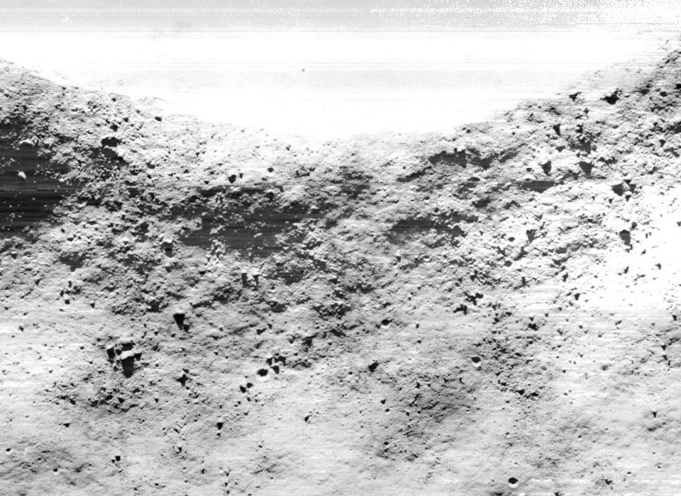 The west rim of Censorinus, on the moon, with east at the top, showing abundant large boulders. Image width is about 2.25 km.